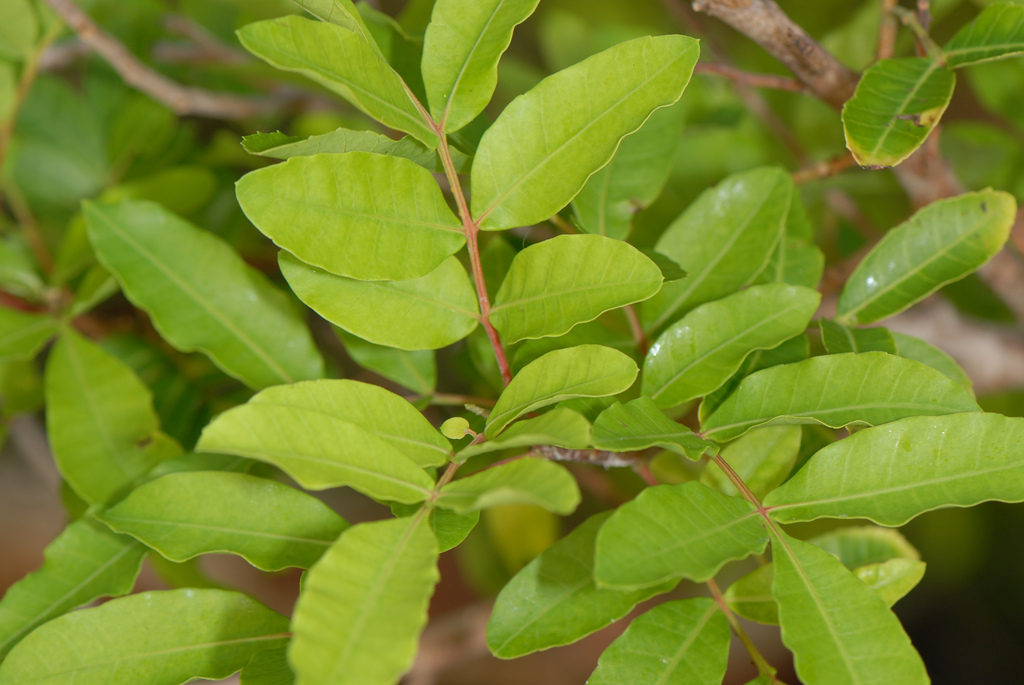 BDA: 32° 20' 15" N x 64°40' 38" W Howard Bay, Tucker's Town St. George's Parish, Bermuda 29 July 2009 Sam Fraser-Smith